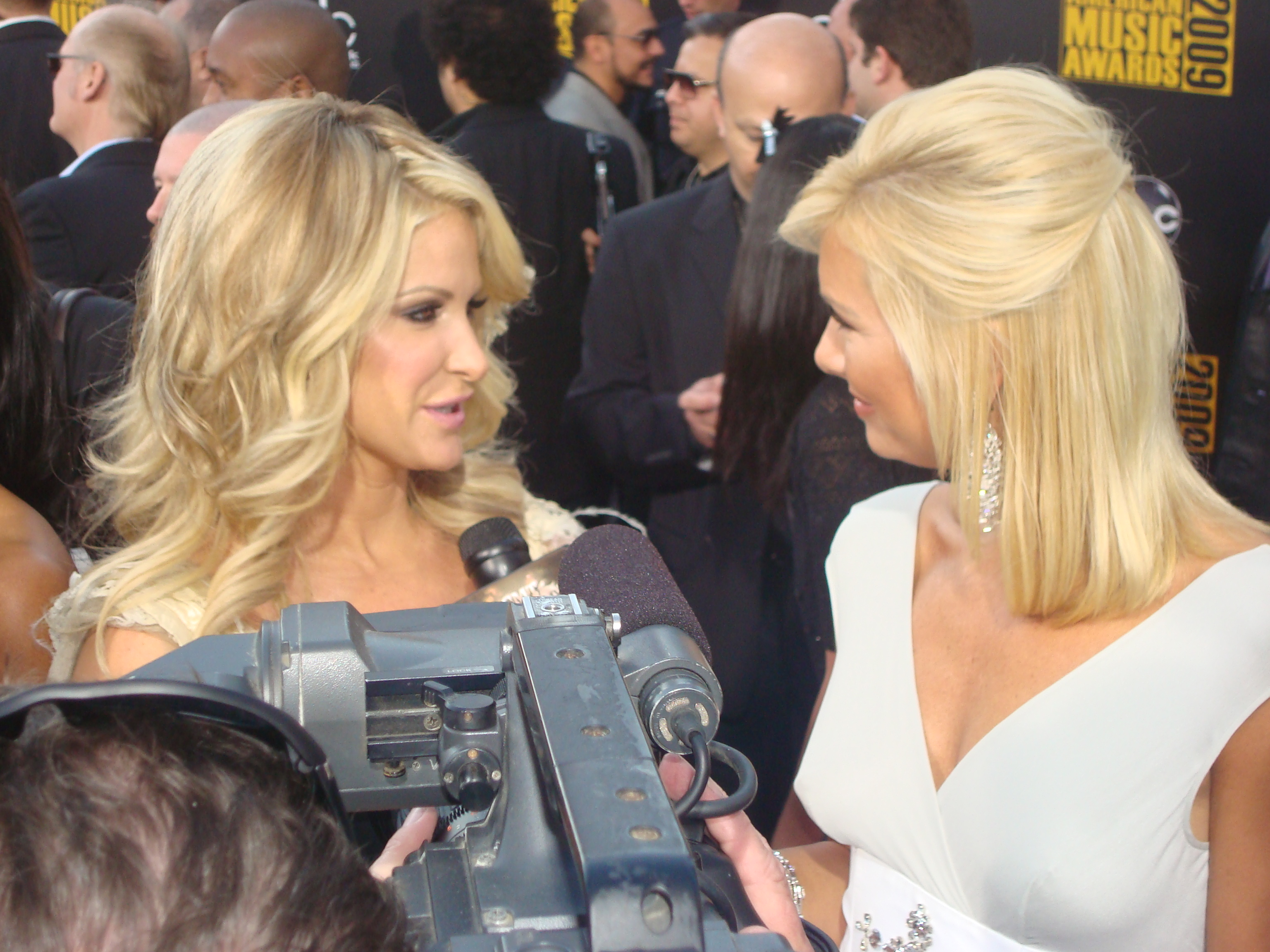 This photo was taken on November 22, 2009 in Dowtown Carrier Annex, Los Angeles, CA, US, using a Sony DSC-W80.